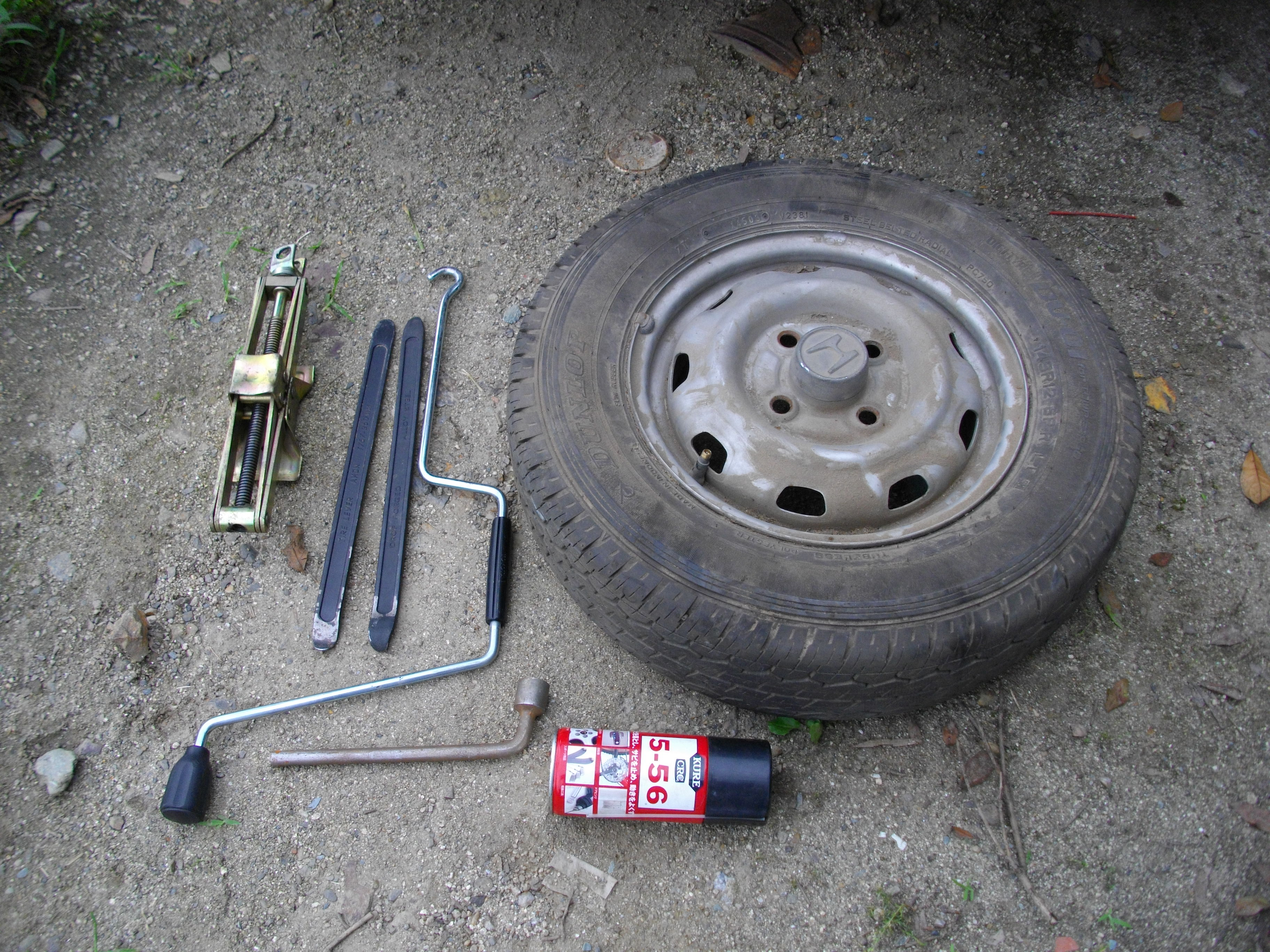 Tire(Dunlop's "Digityre DV-01"、145R12-6PR w/Steel wheel for Honda Acty) and some tools (Jack、Tire lever, Wrench, and Kure's CRC 5-56 Lubricant spray)